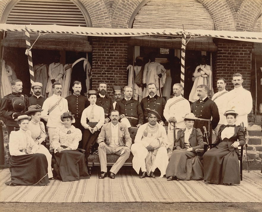 Photograph showing the Resident and his staff at Kolhapur with the Maharaja of Kolhapur